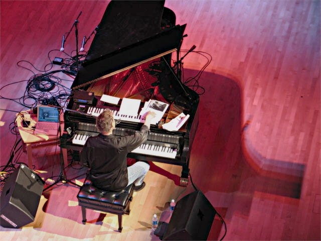 Permission for the use of this image has been sent to the OTRS system Snidleysnide 22:02, 2 March 2007 (UTC) Because of the level of contention surrounding the uploading of images on this page, a confirmation of authorization for this image to be released to Public Domain and to be tagged as it has been tagged, including confirmation that the given reason is valid, has also been sent to OTRS system. Snidleysnide 15:43, 3 March 2007 (UTC) Image is from